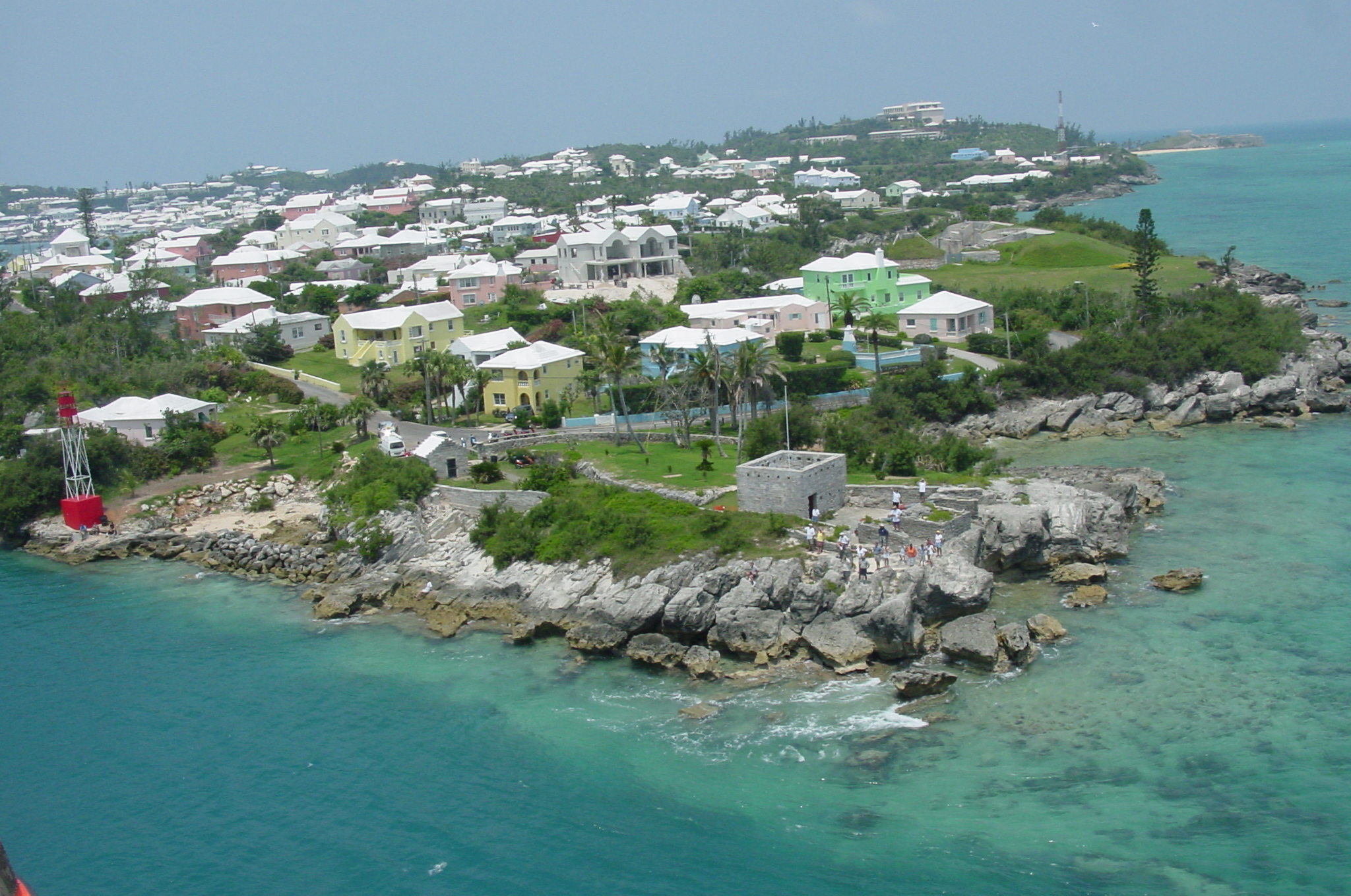 A view of St. George's, Bermuda from the Norwegian Majesty cruise ship leaving the island.